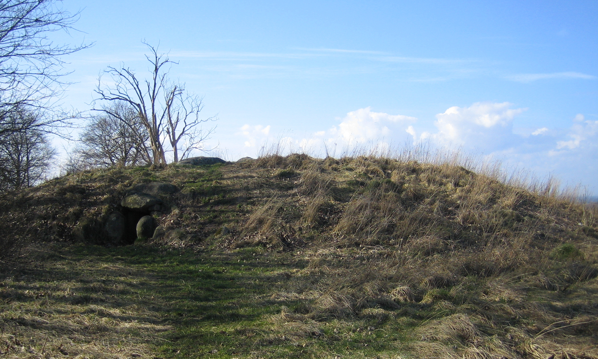 Gillhög passage grave in Barsebäck parish, Scania, Sweden.